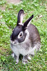 rabbit, colour marten